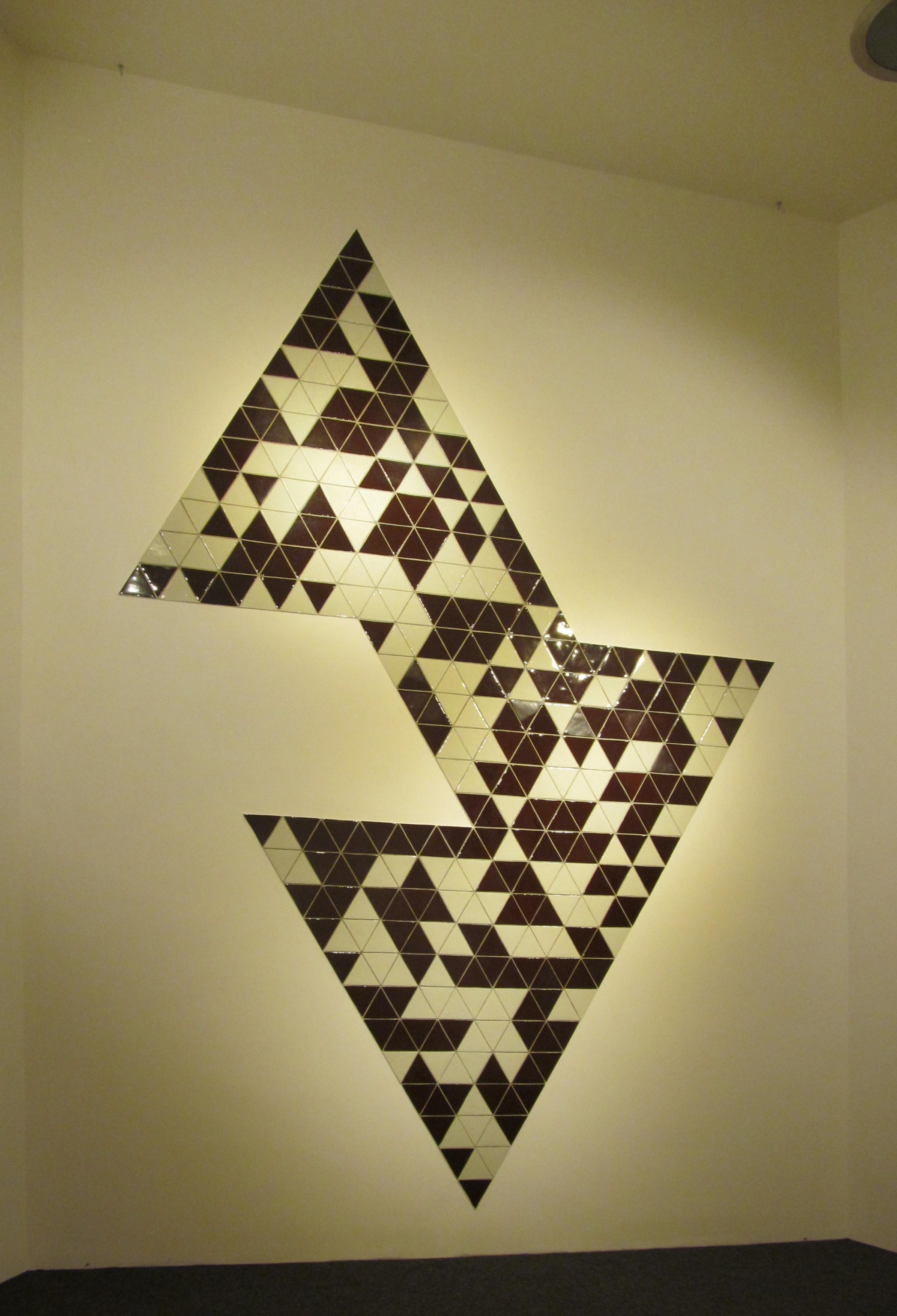 Renovated mosaic from Zdeněk Sýkora in the Citadela house in Litvínov. Made 1975, drafted 1967